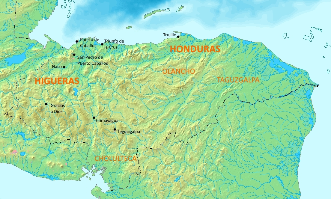 16th-century Spanish colonial regions and settlements within the modern territorial limits of Honduras. Sources: Newson, Linda (2007) [1986]. El Costo de la Conquista. Tegucigalpa, Honduras: Editorial Guaymuras. ISBN 99926-15-57-5. p37. Chamberlain, Robert S. (1966) [1953] The Conquest and Colonization of Honduras: 1502–1550. New York, US: Octagon Books. OCLC 640057454